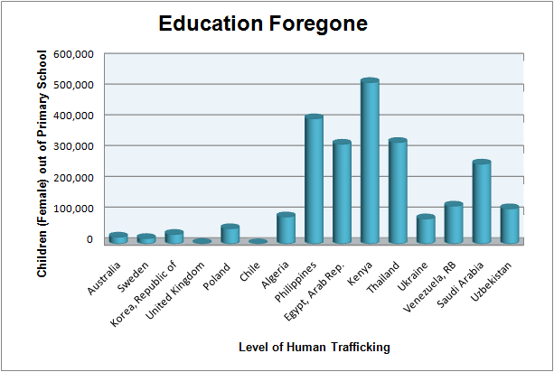 A chart showing positive correlation between level of human trafficking in countries and number of female children out of primary school.